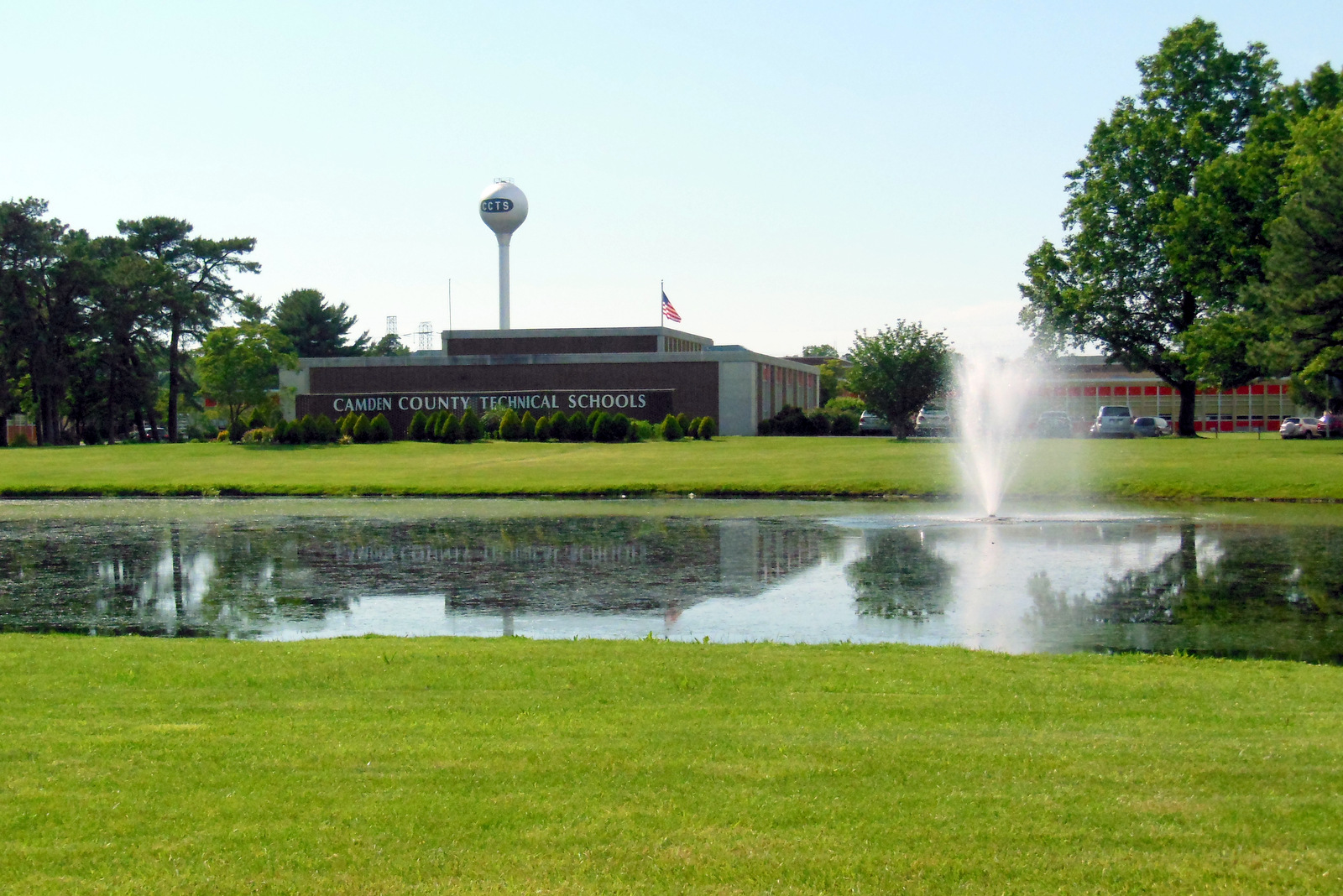 Front Entrance of Technical Institute